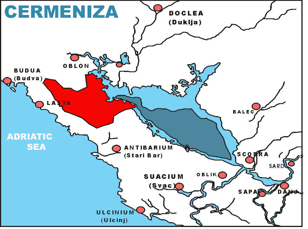 Cermeniza district in Dioclia ( XI c. AD).